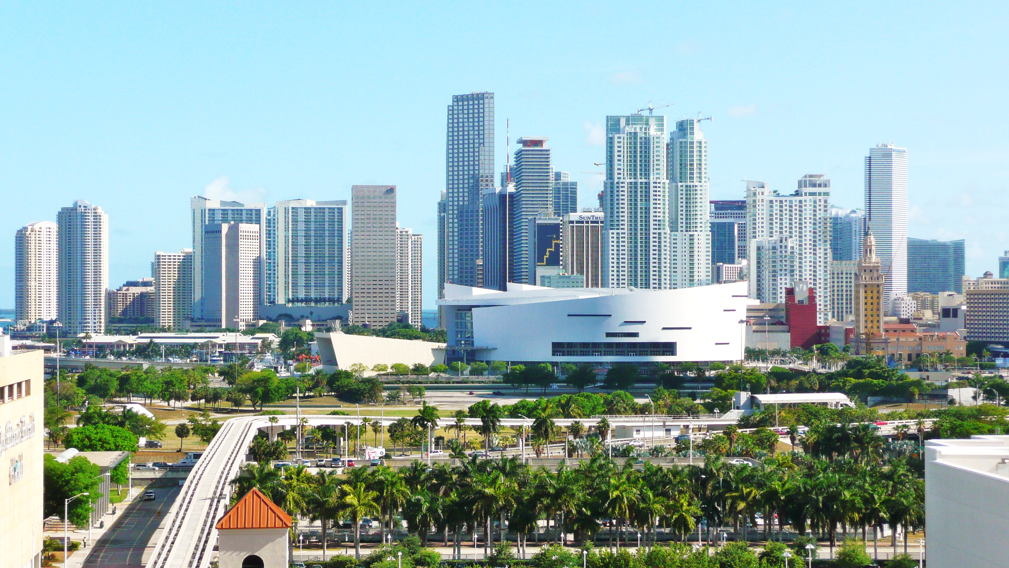 Central Downtown Miami as seen from the north